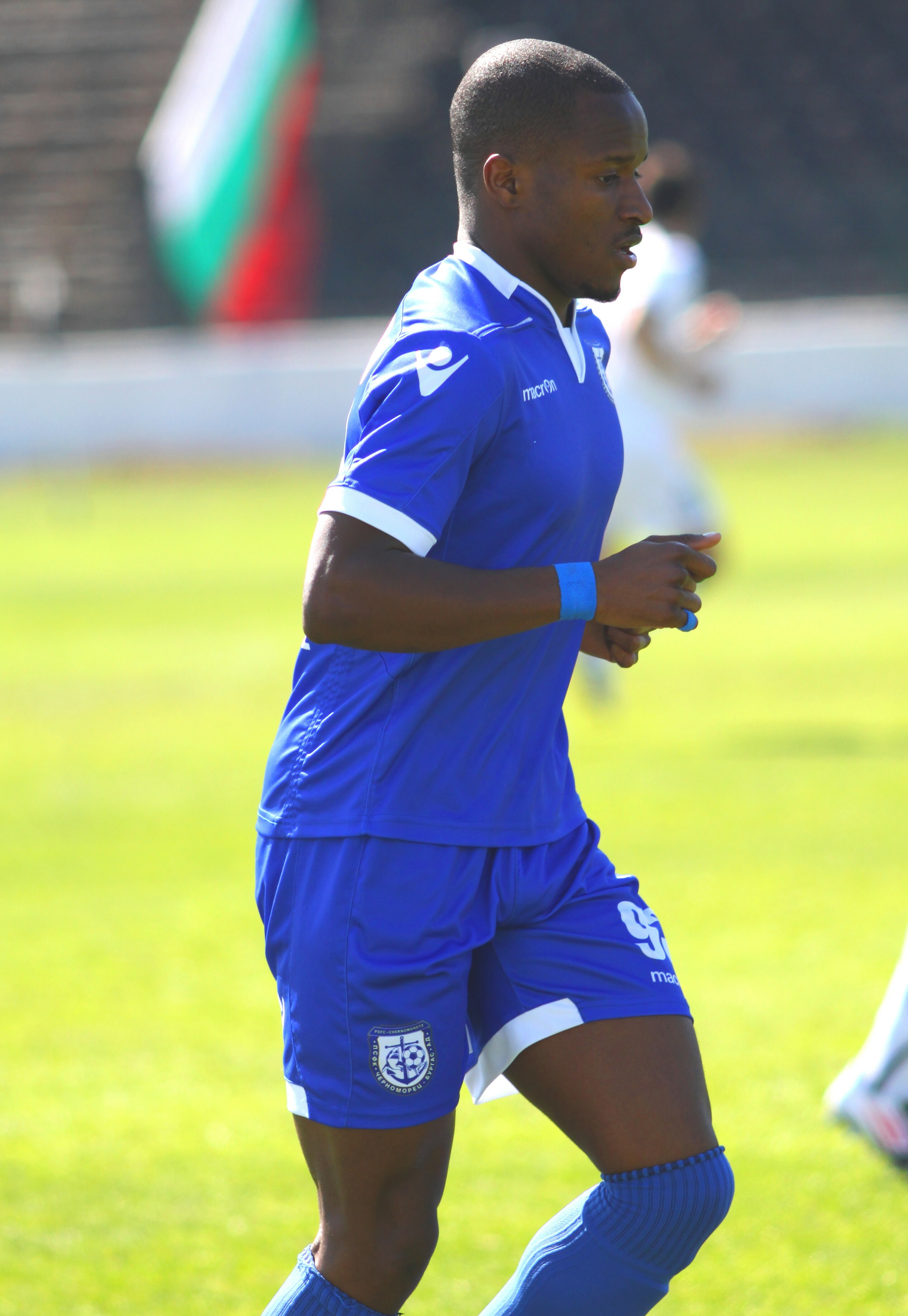 Christopher Oualembo (born 31 January 1987 in Saint-Germain-en-Laye) is a French born Congolese football defender, who currently plays for Chernomorets Burgas in Bulgaria.